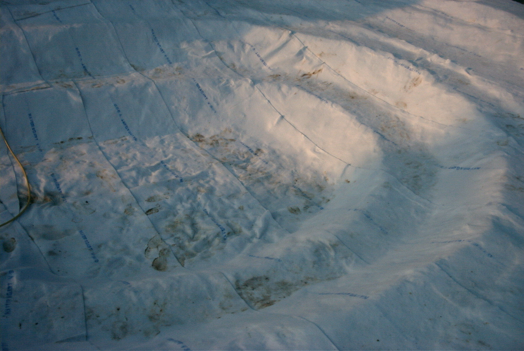 Illustrates part of the building process of a home garden swimming pond. image taken in Summer 2003